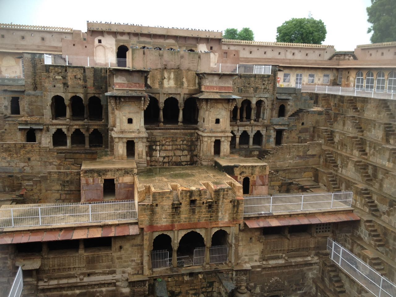 Abhaneri, located in the Dausa district of Rajasthan, is a baori or a step-well traditionally used to conserve and store water and for public baths.